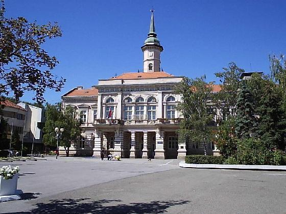 Bečej.